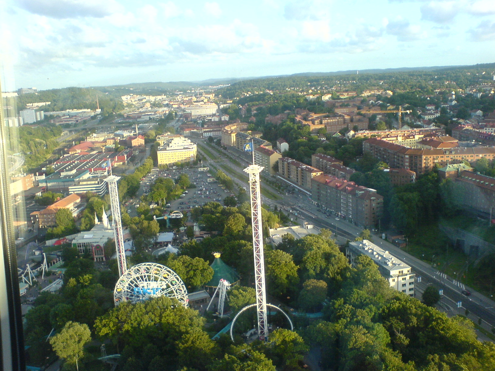 Liseberg in Gothenburg, Sweden. Picture taken from the Lisebergstornet.